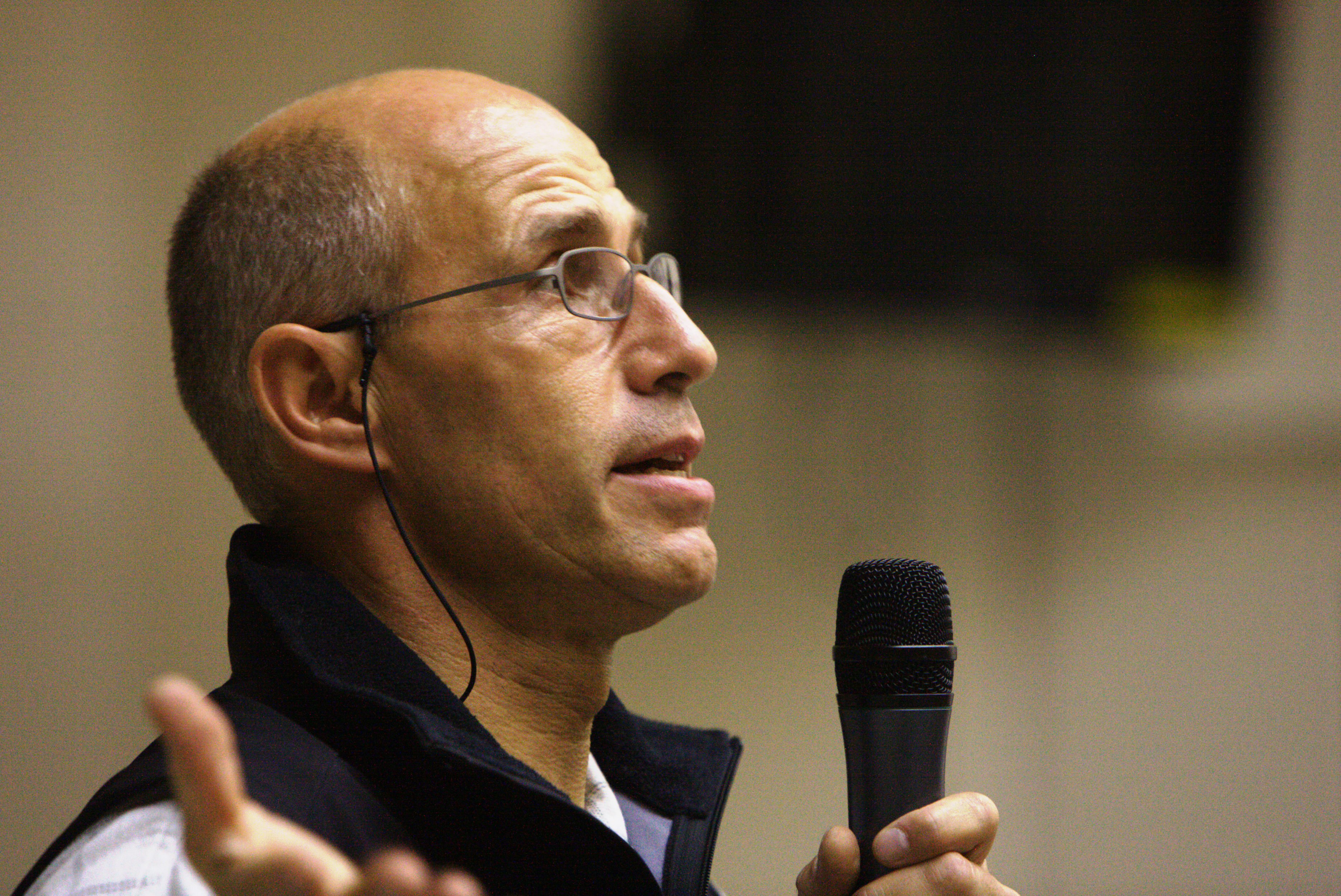 Yves Rossy